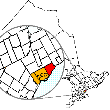 Scarborough (red), a former municipality within Toronto (orange) Modified from original Image:Onttor.PNG.